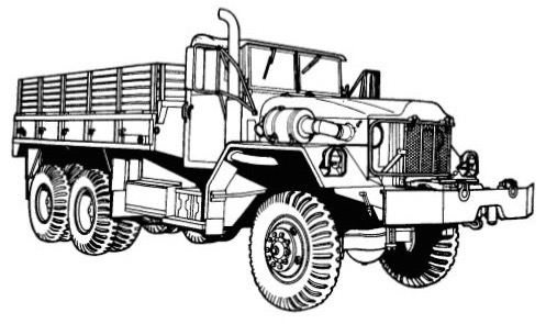 Right front side of M54 Cargo Truck